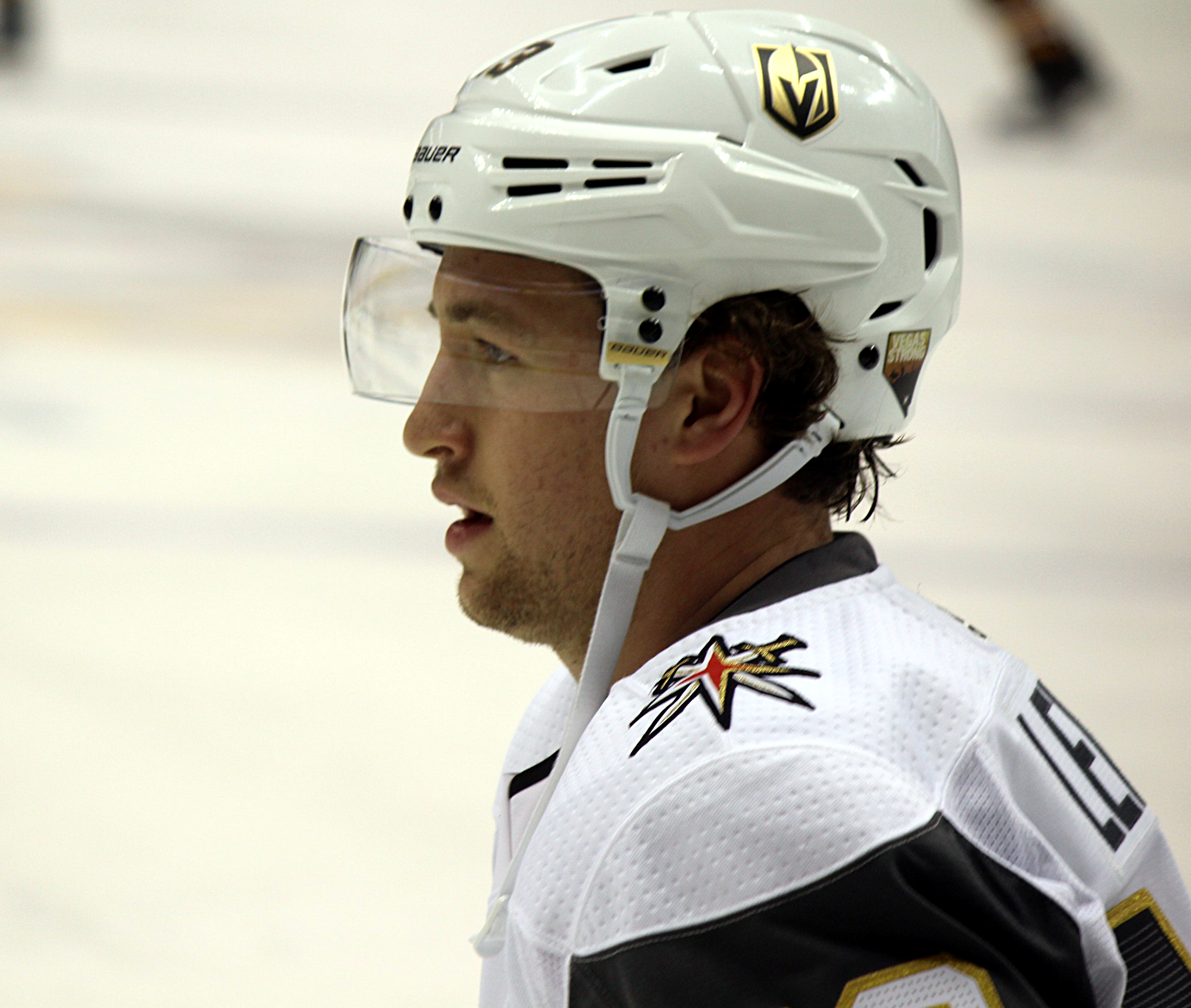 Vegas Golden Knights forward Brendan Leipsic during a game against the Pittsburgh Penguins, February 6, 2018, at PPG Paints Arena in Pittsburgh, PA.